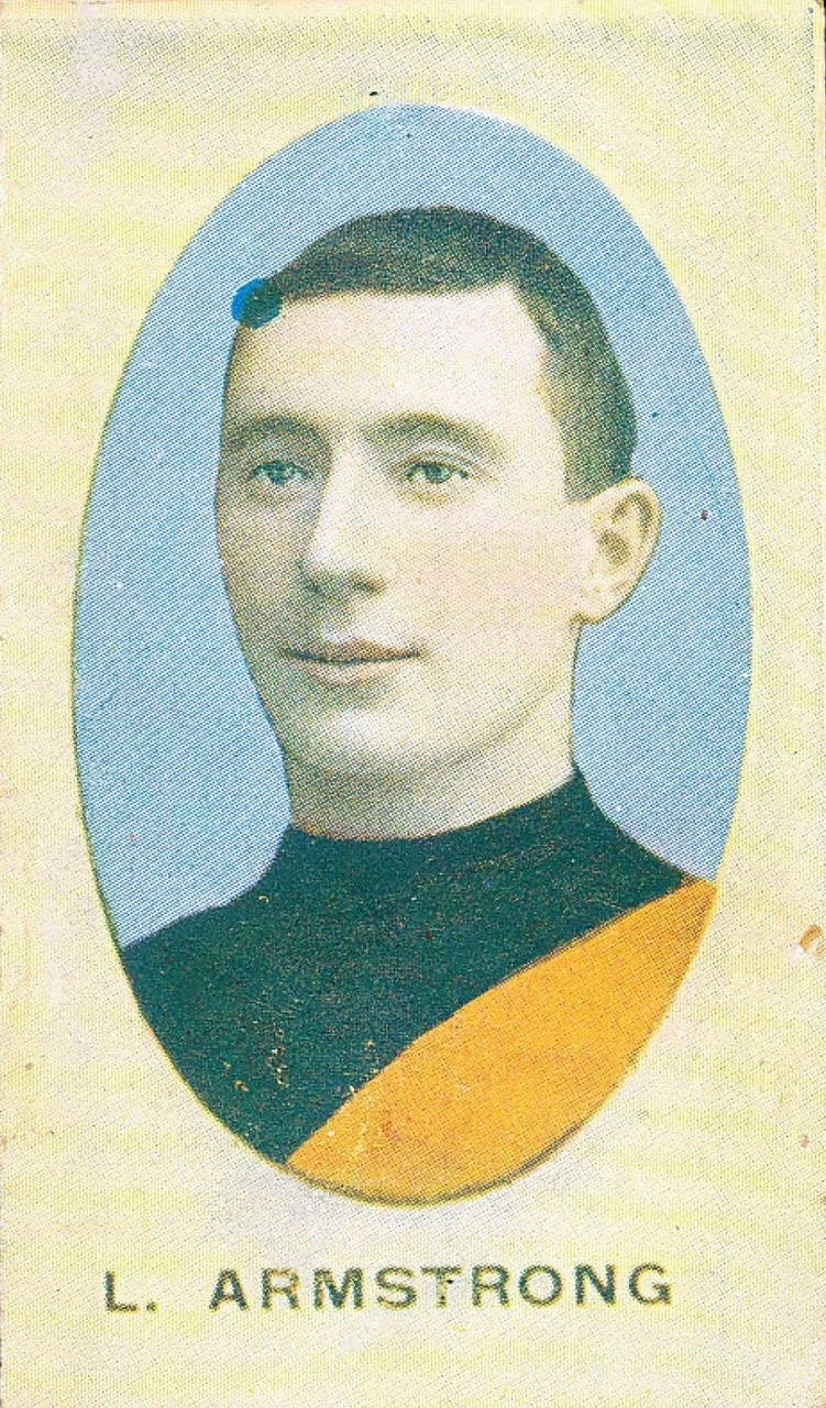 Cigarette card of Lou Armstrong from the Sniders & Abrahams 1910 series